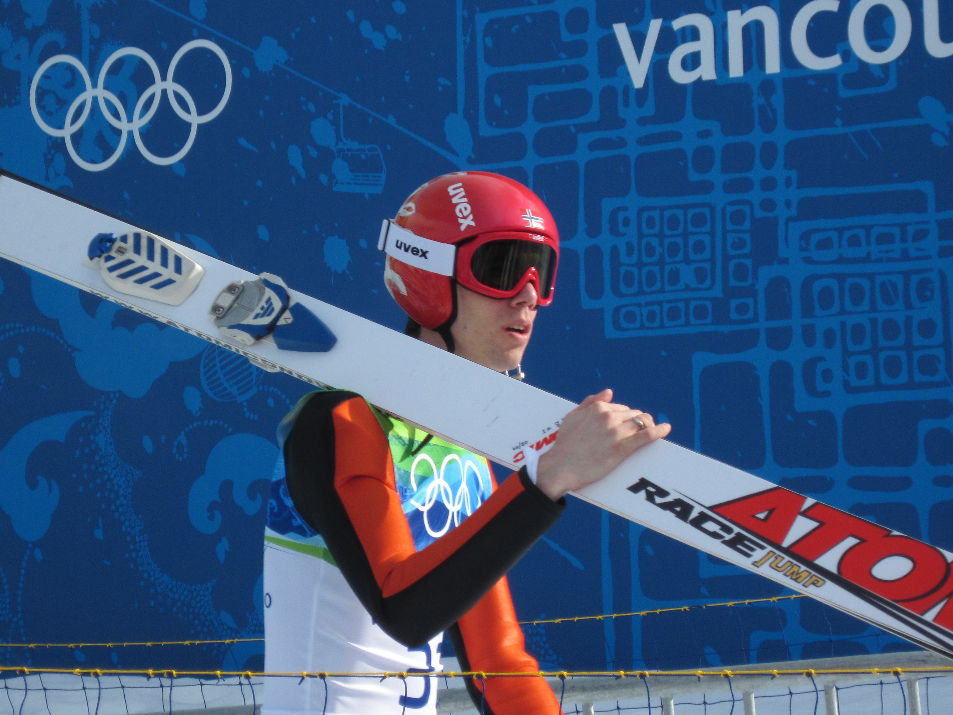 Anders Bardal at 2010 Winter Olympics.